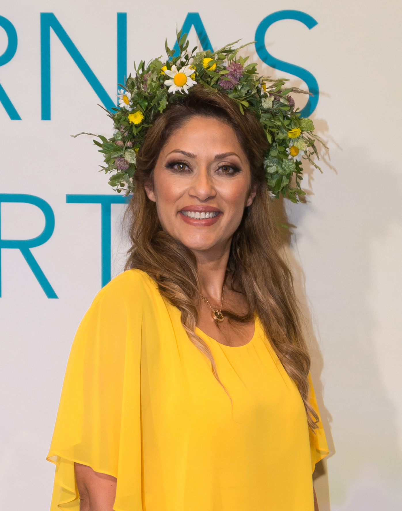 Summer host in P1 in Sweden's radio 2019.